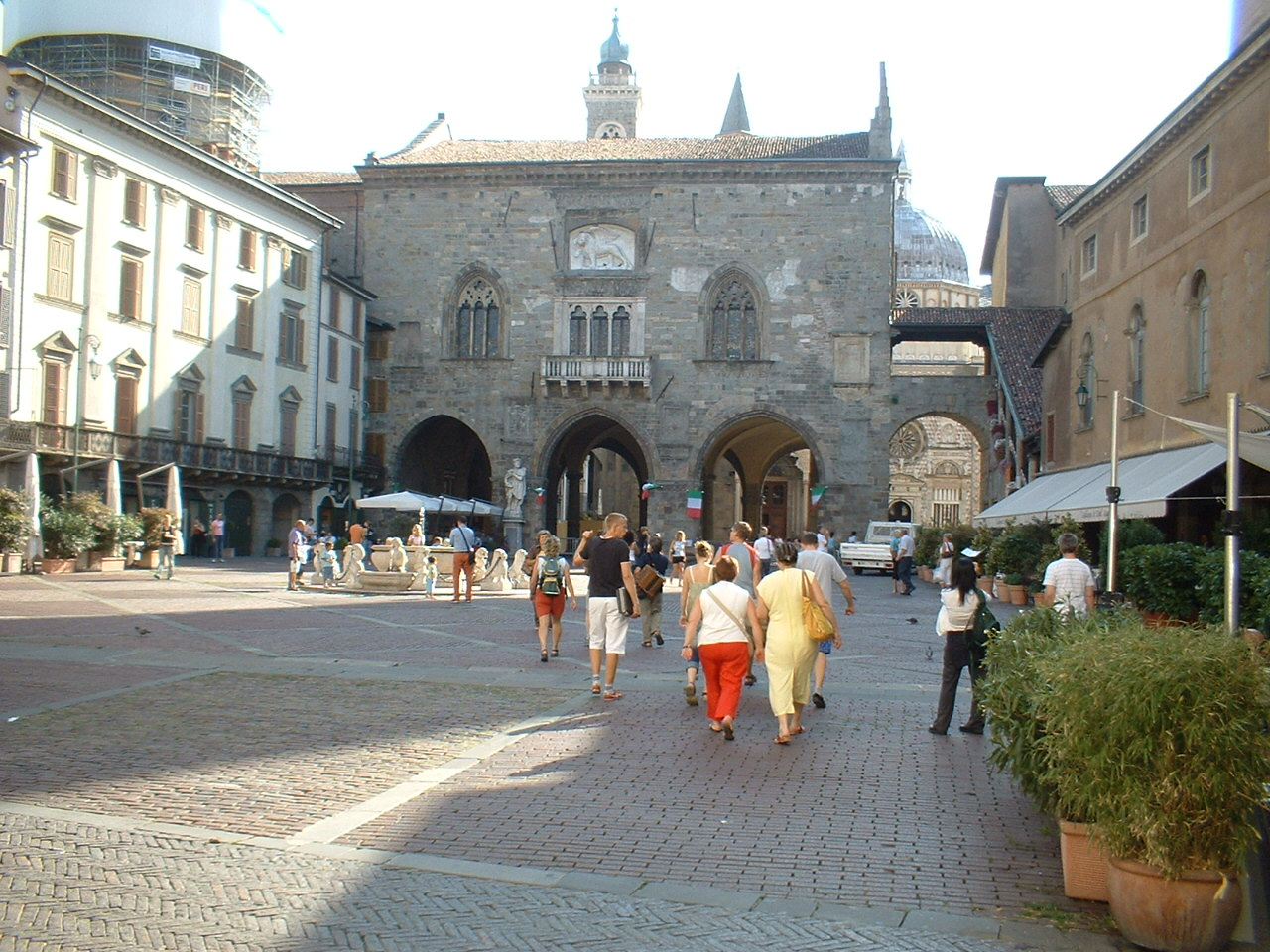 Palazzo della Ragione - Bergamo, Lombardia, Italy